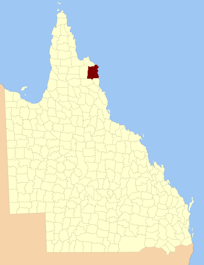 Location of the county in Queensland, one of the Cadastral divisions of Queensland